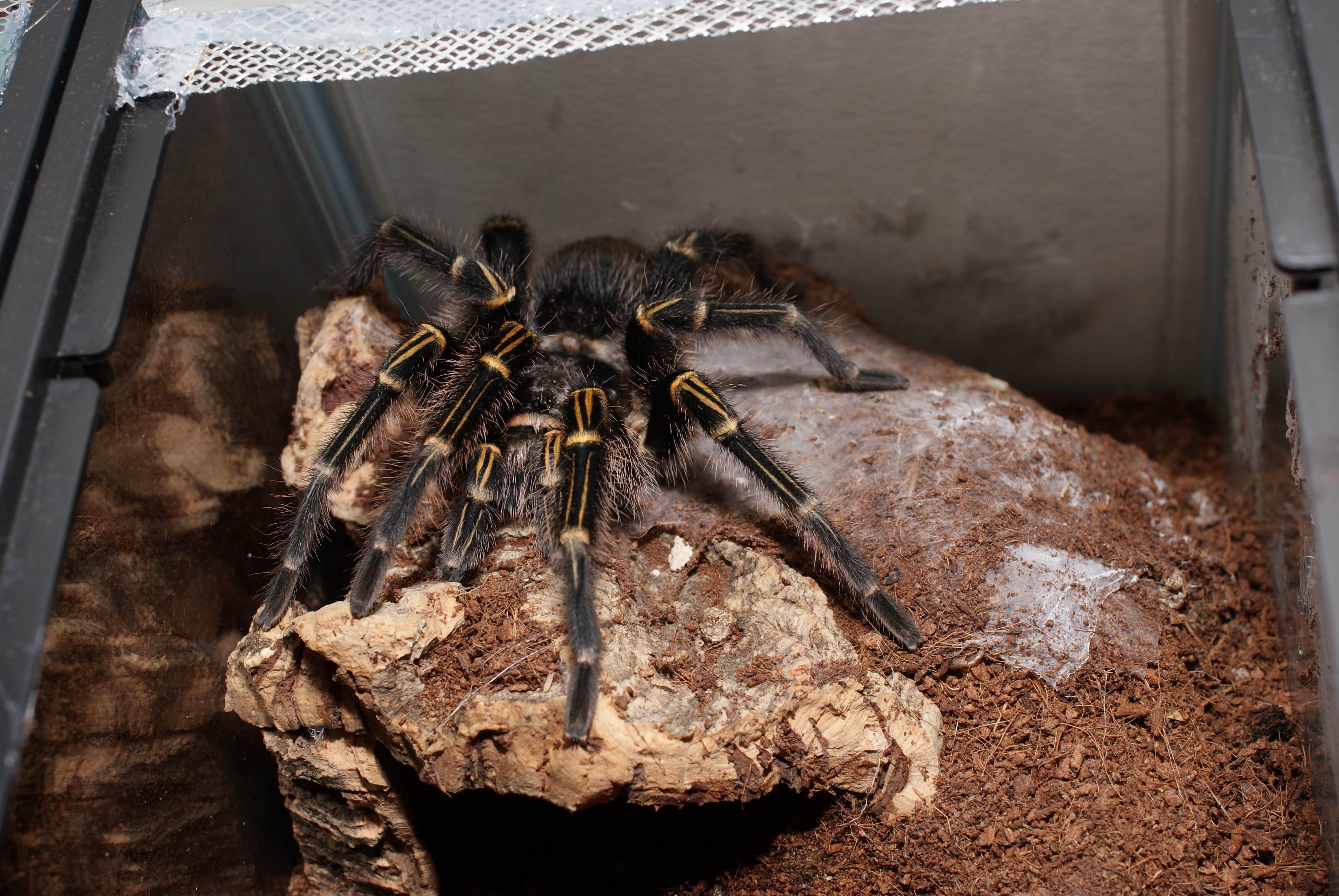 grammostola pulchripes